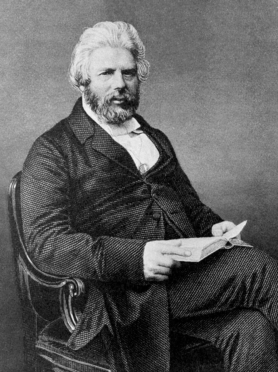 Robert Chambers (1802 -1871), scottish editor, bookseller and scientist. From The History of Phrenology on the Web